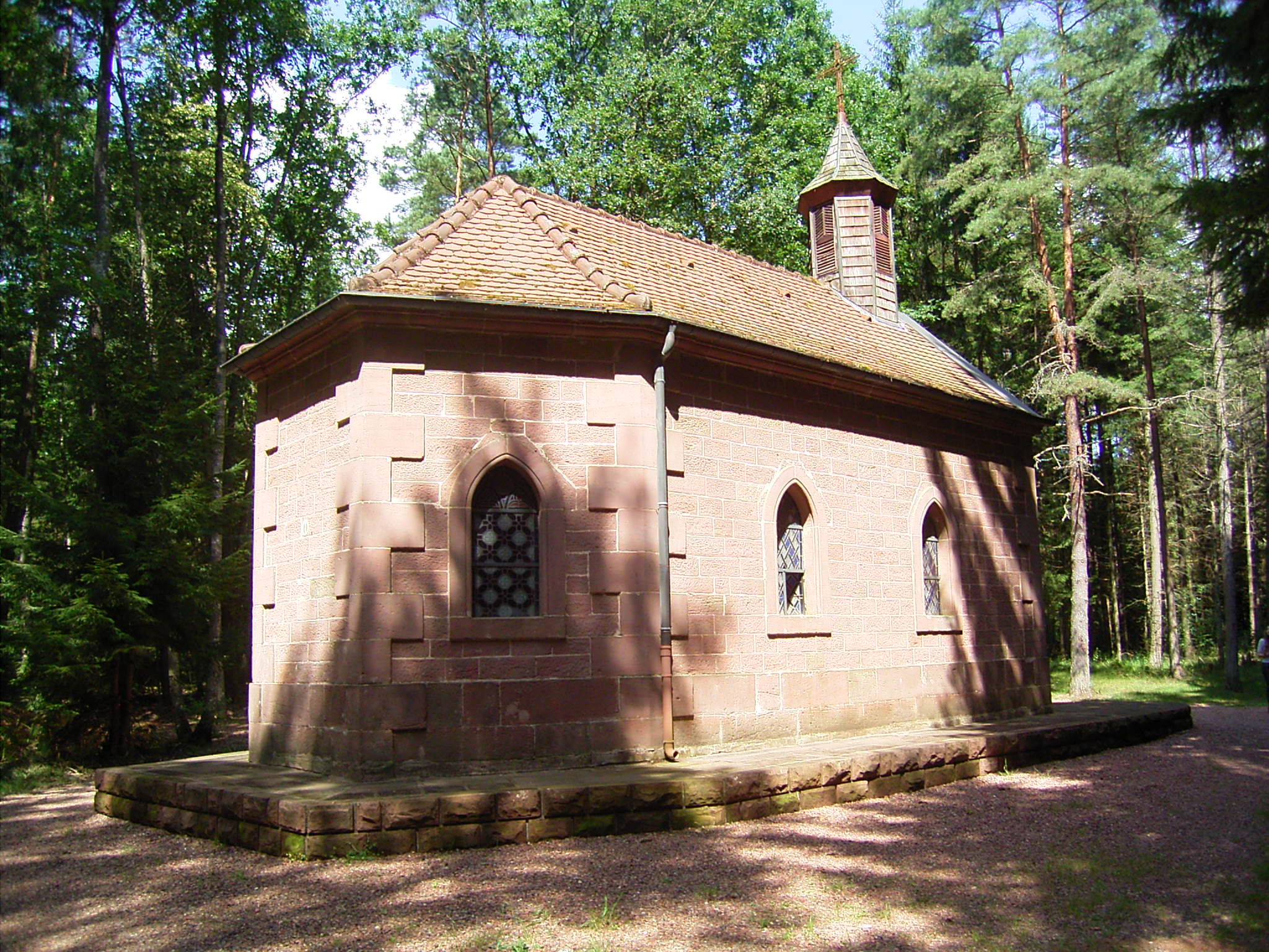 Apse of the chapel Notre-Dame-des-Bois in Erbsenthal, next to Eguelshardt, Moselle, France